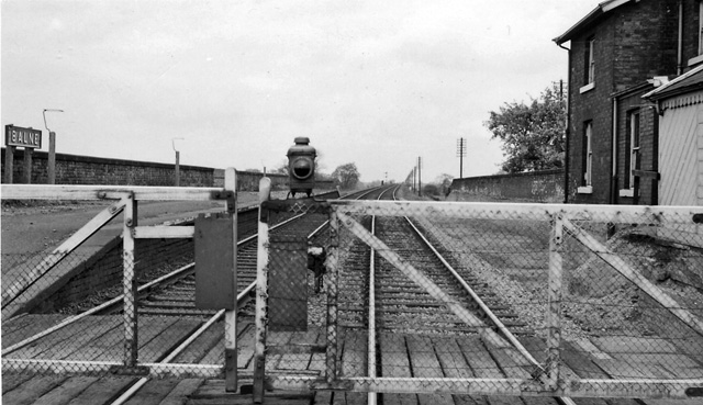 Balne Station (remains). View northward towards Selby and York, East Coast Main Line. The station, along with many other wayside stations on the ECML, had been closed on 15/9/58 to allow more freedom for accelerated expresses, but on this occasion the crossing, which was on a minor road, had been closed - ?just for me. The station lost Goods services later (6/7/64), but the line is still of course very much alive.